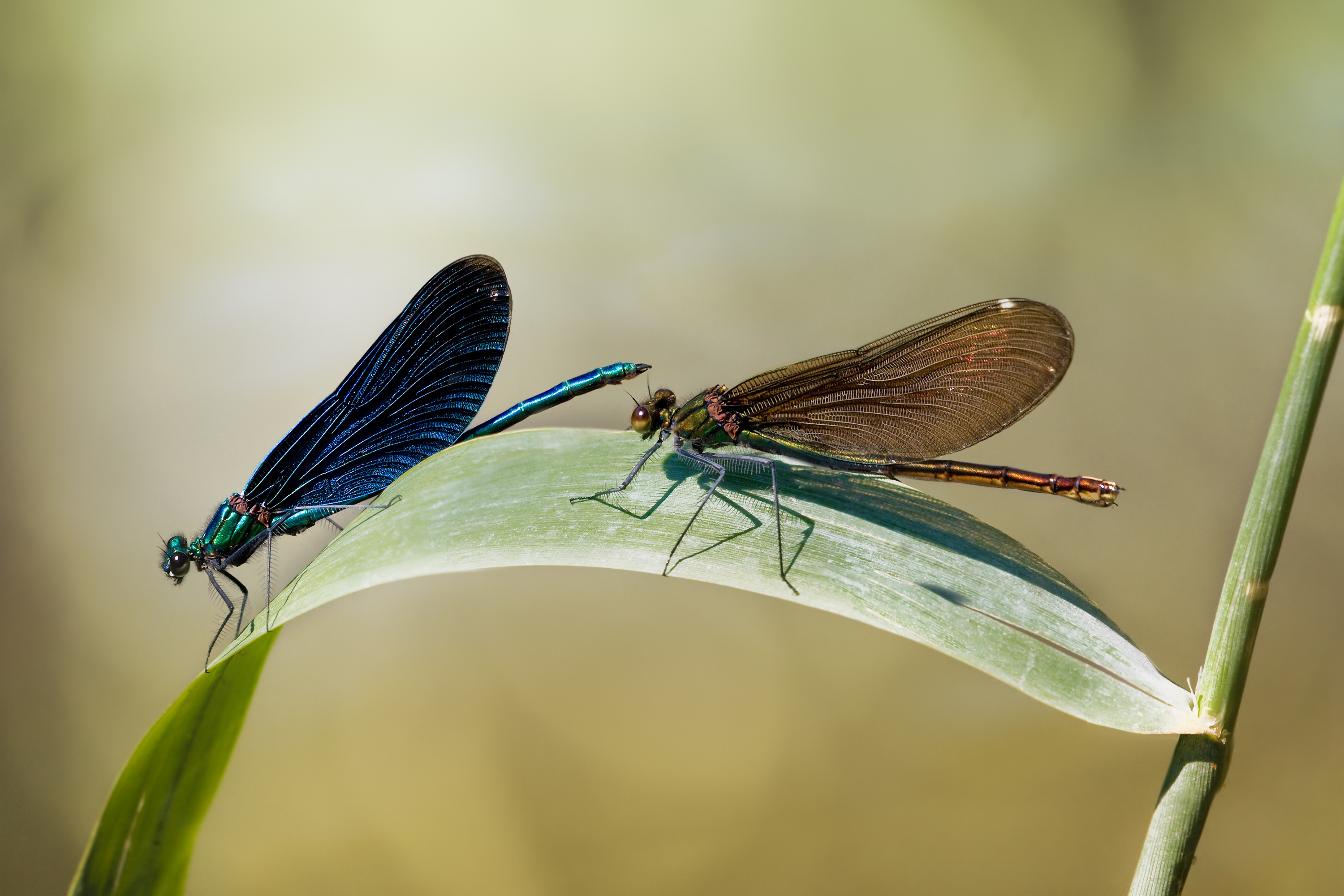 Male (left) and female (right) of Beautiful Demoiselle (Calopteryx virgo). (Calopterygidae) is a European damselfly. It is often found among fast-flowing waters.